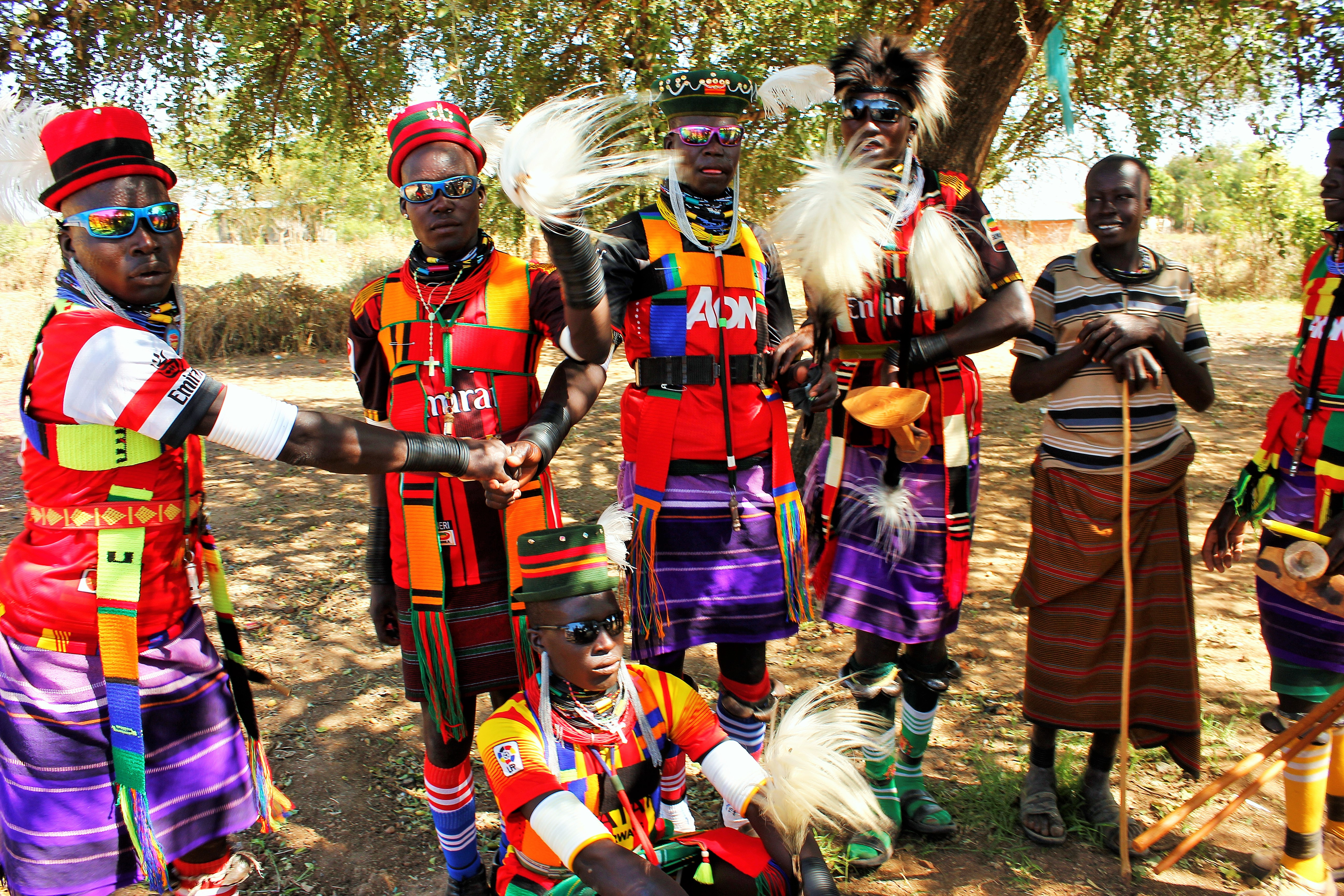 The Karamajong groom (seated) with his best men after a traditional wedding dance This is an image of music and dance from Uganda